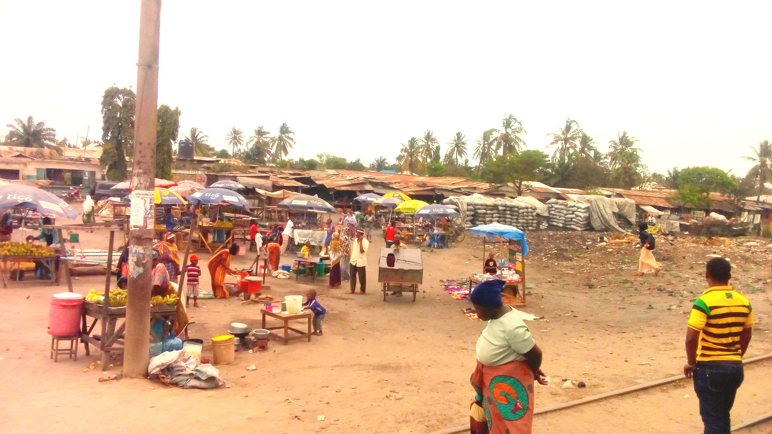 Yombo Vituka railway crossing. The picture taken while I was on the commuter train widely known as Treni ya Mwakyembe. From far you can see Yombo Vituka mini local market serves the people who lives near this area. Kiswahili: Picha imepigwa nikiwa ndani ya treni. Maarufu kama Treni ya Mwakyembe. Kwa mbali unaweza kuona soko dogo linalohudumia watu wanaoishia karibu na eneo hili.